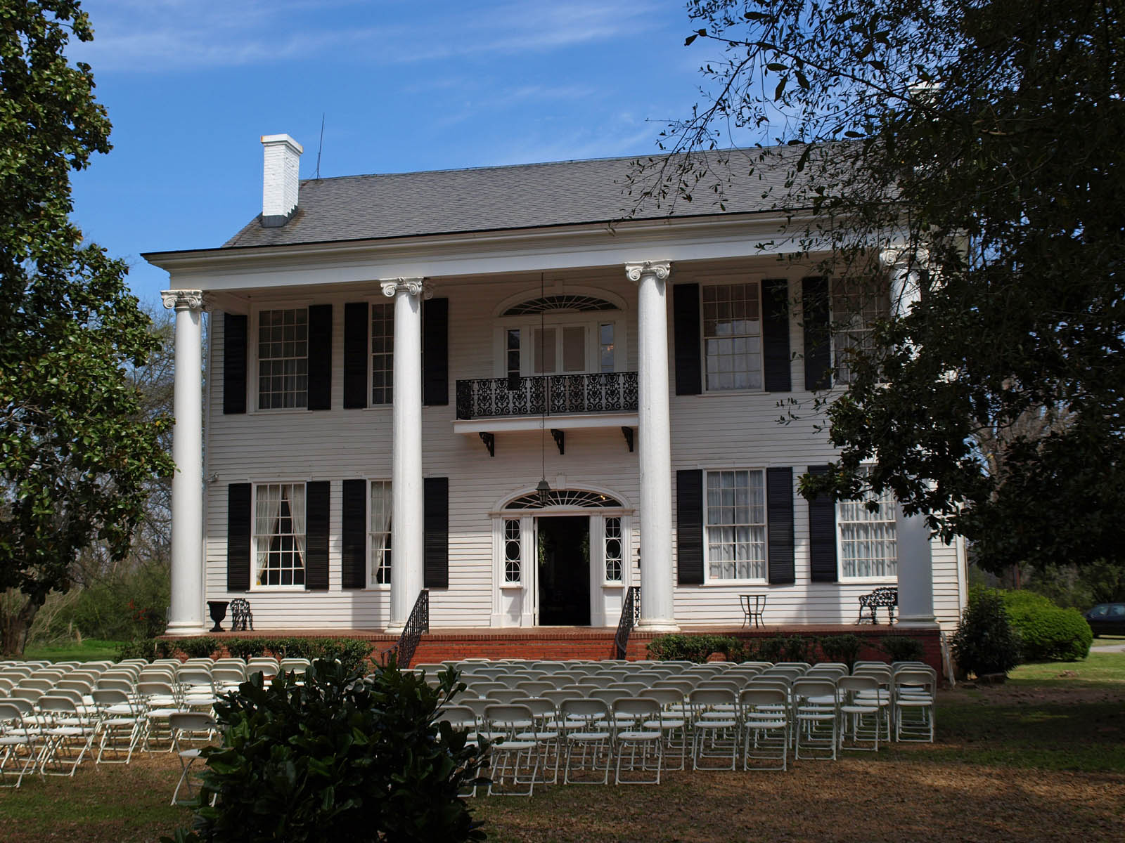 The Montgomery-Janes-Whittaker House near Prattville, Alabama, listed on the National Register of Historic Places.